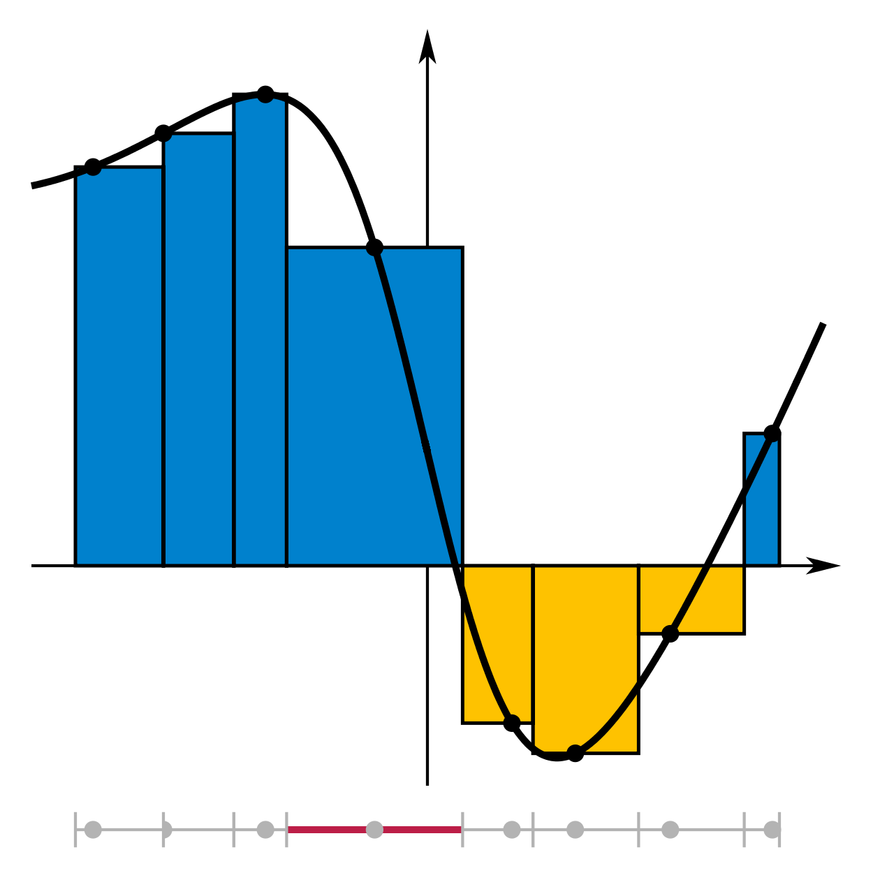 Plot of function and Riemann sum rectangles